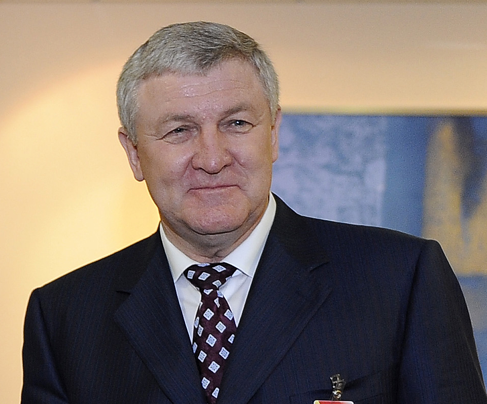 U.S. Secretary of Defense Robert M. Gates, left, poses for a photo with Ukrainian Defense Minister Mykhailo Yezhel at a North Atlantic Treaty Organization (NATO) Defense Ministerial at NATO Headquarters in Brussels, Belgium, June 9, 2010. (DoD photo by Master Sgt. Jerry Morrison, U.S. Air Force/Released)